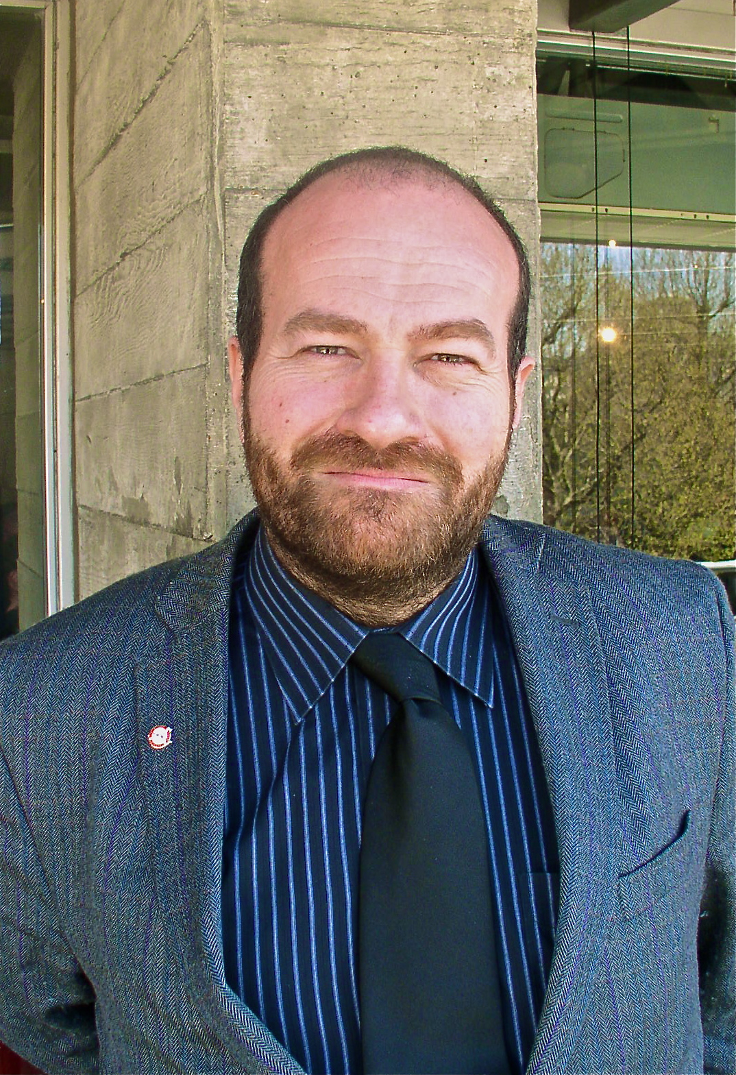 Critic Mark Shenton at the National Theatre for the Critics' Circle lunch and presentation of the annual award for Outstandin Service to the Arts to Sir Alan Ayckbourn